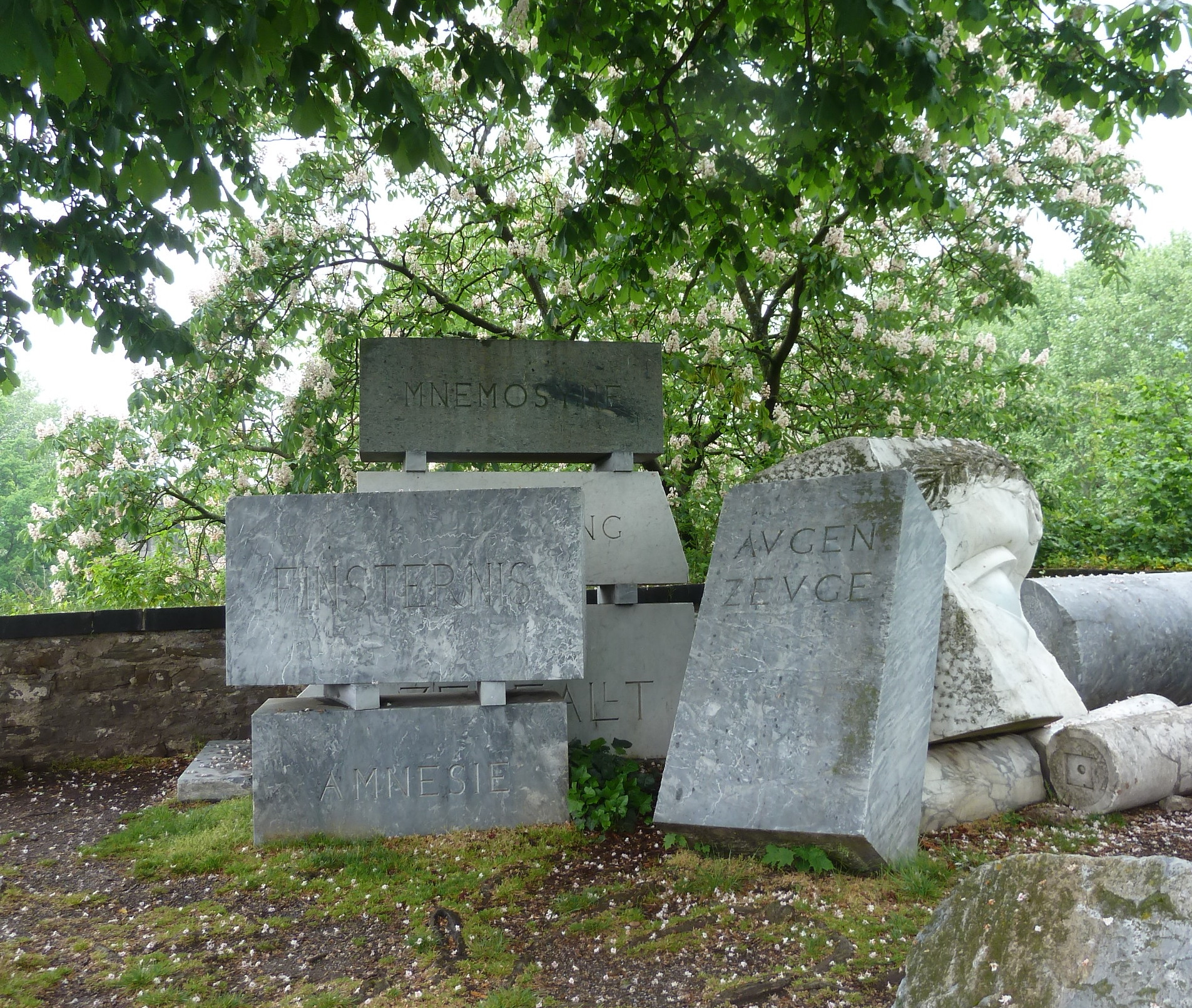 Anne and Patrick Poirier: "Dépot de mémoire et d'oubli"